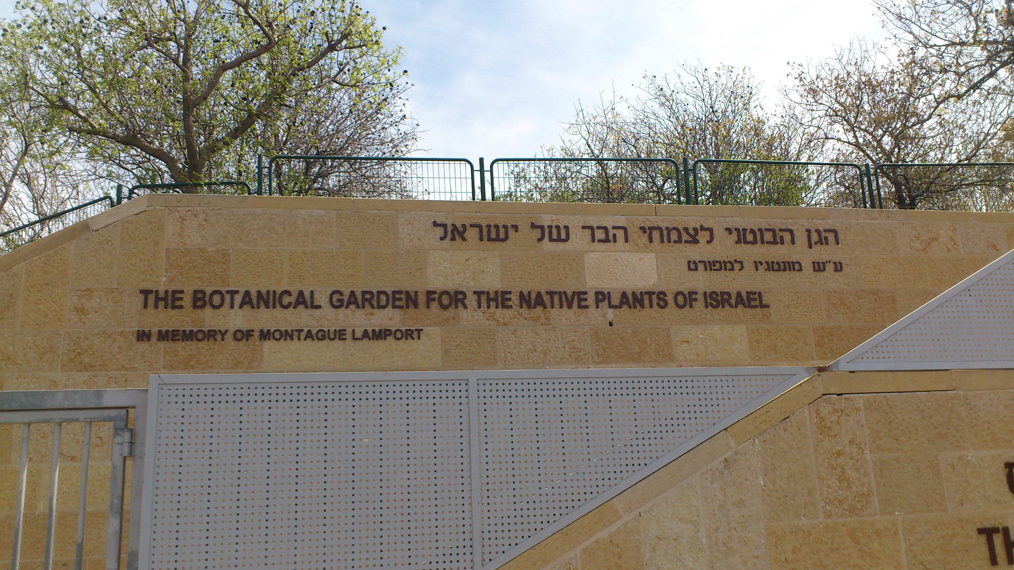 Botanical Garden on Mount Scopus